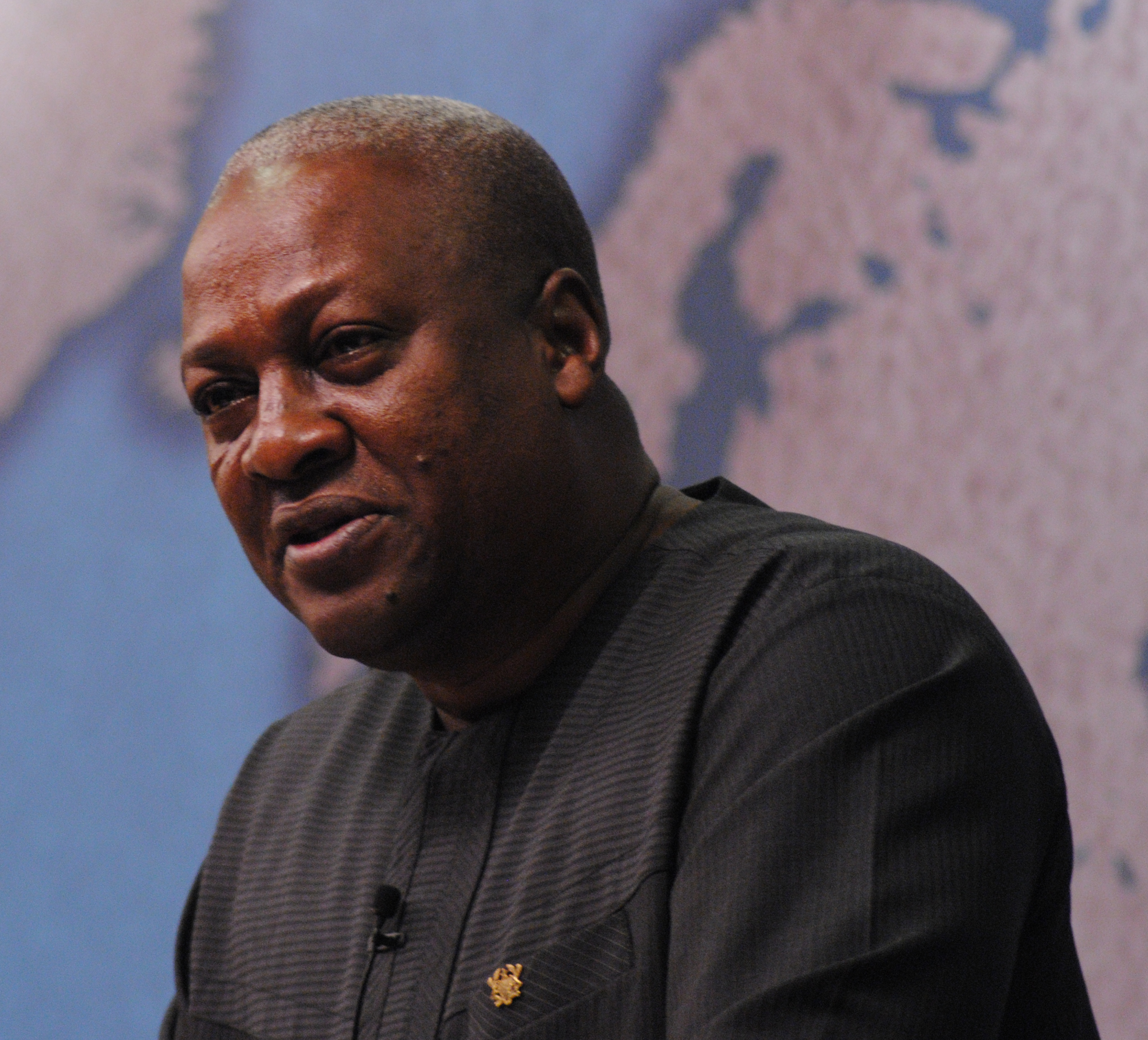 HE John Dramani Mahama, President of the Republic of Ghana at the Chatham House event "Ghana's Democratic Gains, Economic Change and Regional Influence", 14 June 2013